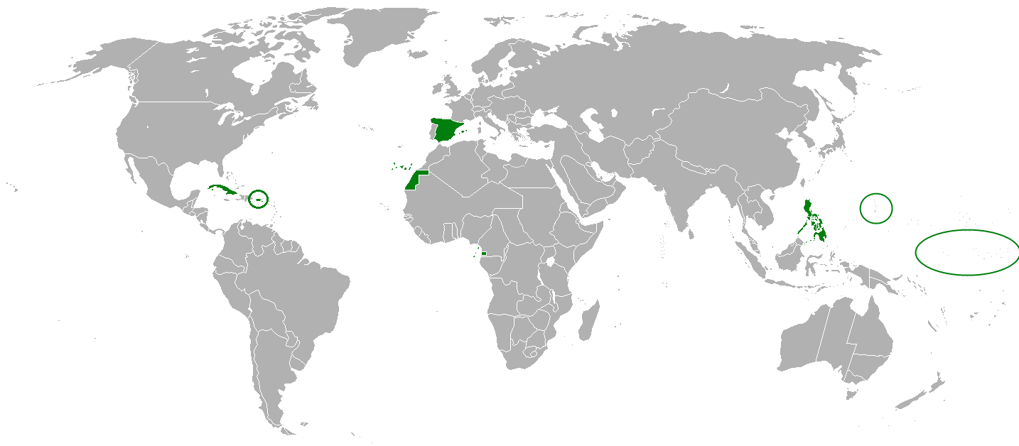 Spanish Empire before the Spanish-American war